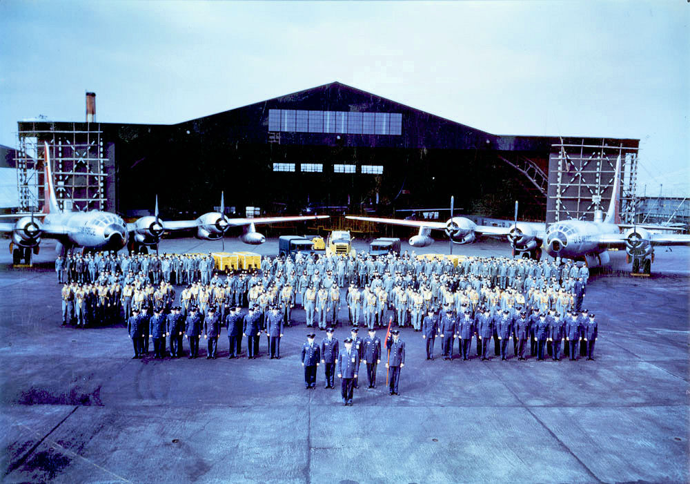 56th WRS at Yokota AB, Japan 1952 Official USAF Photo, courtesy of the Air Force Weather History Office